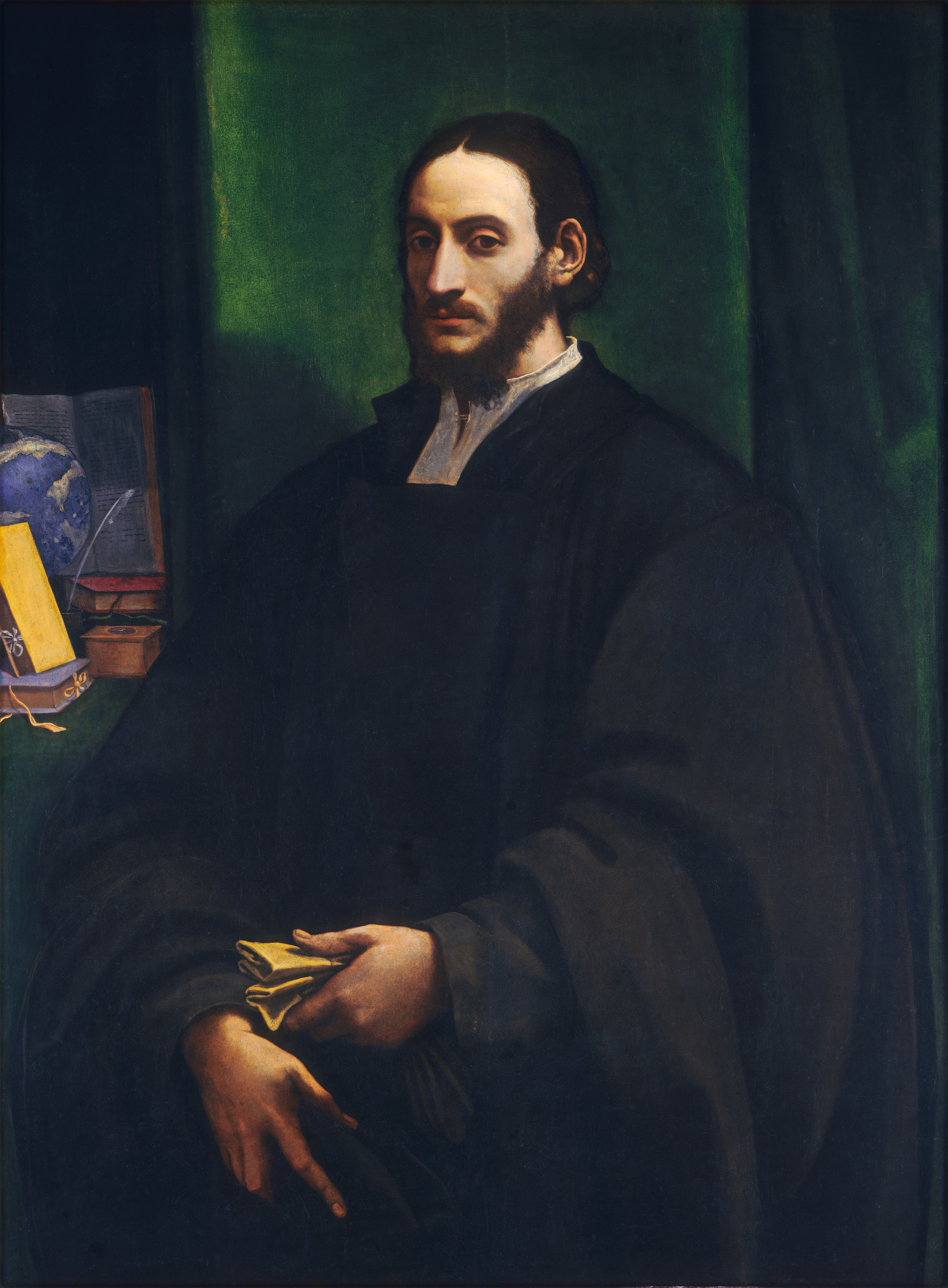 The identity of the sitter is not known. Dietrich Rauchenberger has suggested that the painting may depict Leo Africanus (c.1494-c.1554).(Rauchenberger 1999, pp. 78-79) Another possibility is that painting depicts the Italian poet Marcantonio Flaminio (1497/8–1550) who was a friend of the artist.(Masonen 2001, p. 128)